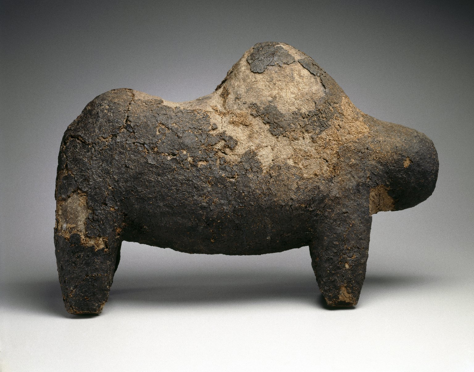 Four legged animal without defined features. It has a flat rump, stands on four squat legs, has a hump on its back, and a rounded head. It is composed of a variety of materials: a hard wooden core covered with bark, plant fibers, clay and other materials. CONDITION: Very fragile with losses of outer layers: cleared, crackled and crumbling areas. A boli is an abstract figure kept in a shrine belonging to a secret Bamana men's association. It is believed to be the embodiment of the spiritual powers of the society. These powers underlie the ability of the association to maintain social control. Today, the Kono society has lost its influence in most Bamana communities due to the conversion of Bamana to Islam.The basic form of this boli resembles a highly simplified cow. It is composed of a wooden core over-modeled with materials such as mud, eggs, chewed kola nuts, sacrificial blood, urine, honey, beer, vegetable fiber, and cow dung. The use of blood, excrement, and urine reflects the belief that these organic substances possess extremely potent spiritual powers.